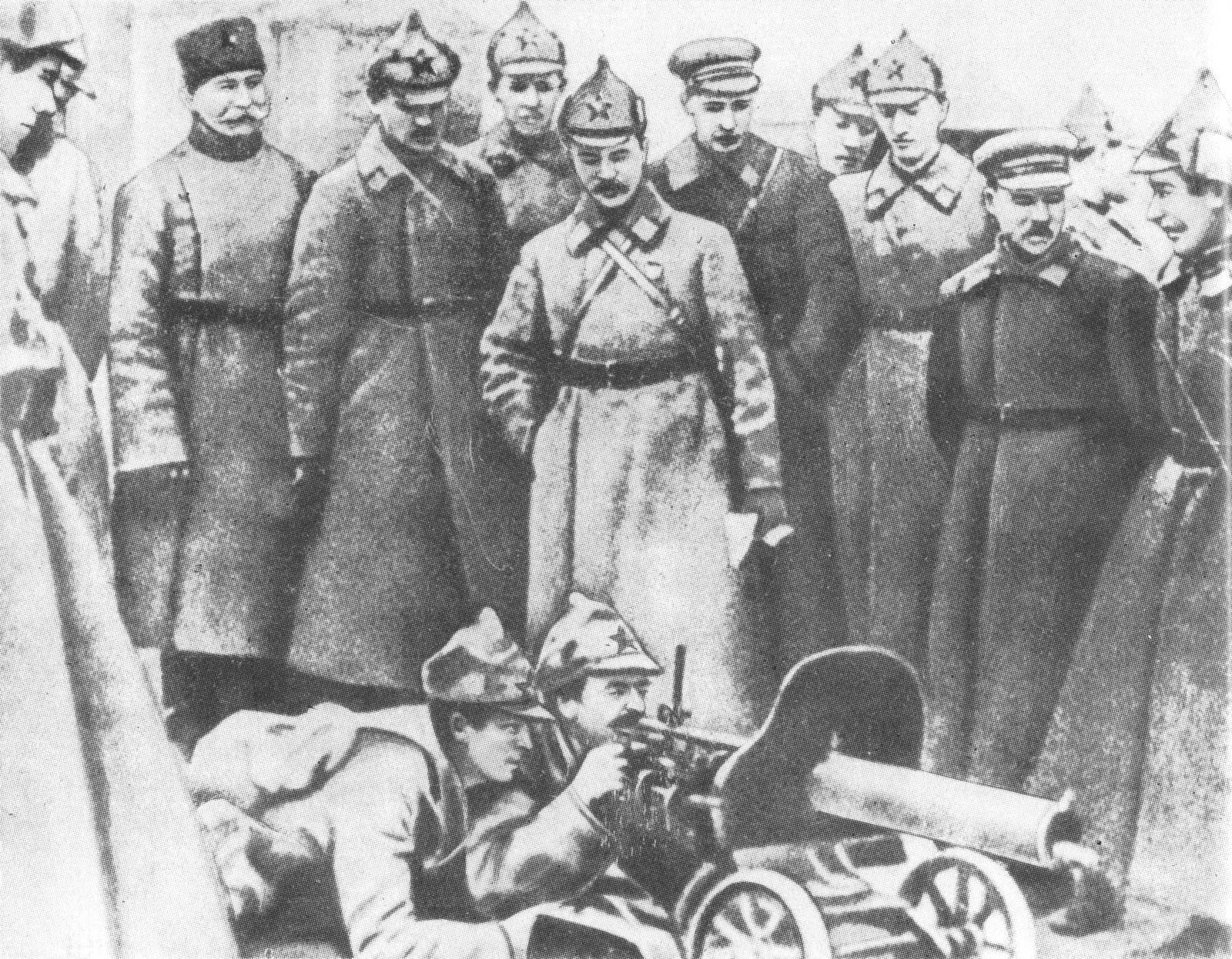 M.V. Frunze at combat training of the Azerbaijani Soldiers of the Red Army. From left to right: A. Shikhlinski, M. Veisov, M.V. Frunze and A. Karaev